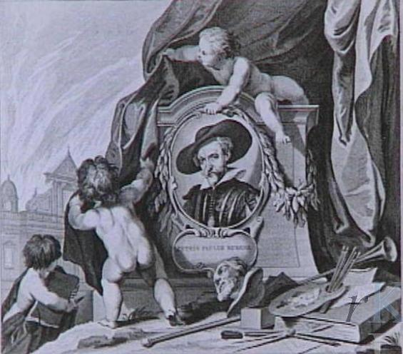 Book of sketches of Rubens ceiling pieces in the Sint-Carolus Borrolomeus church in Antwerp after the fire in 1718 destroyed them; Frontispiece Jan Punt en Jacob de Wit naar P.P. Rubens; De Plafonds of Gallery-stukken uit de Kerk der P.P. Jesuiten, te Antwerpen, geschilderd door P.P. Rubens, geteekend door J. de Wit, en op koper gebragt door Jan Punt. Amsterdam, 1751